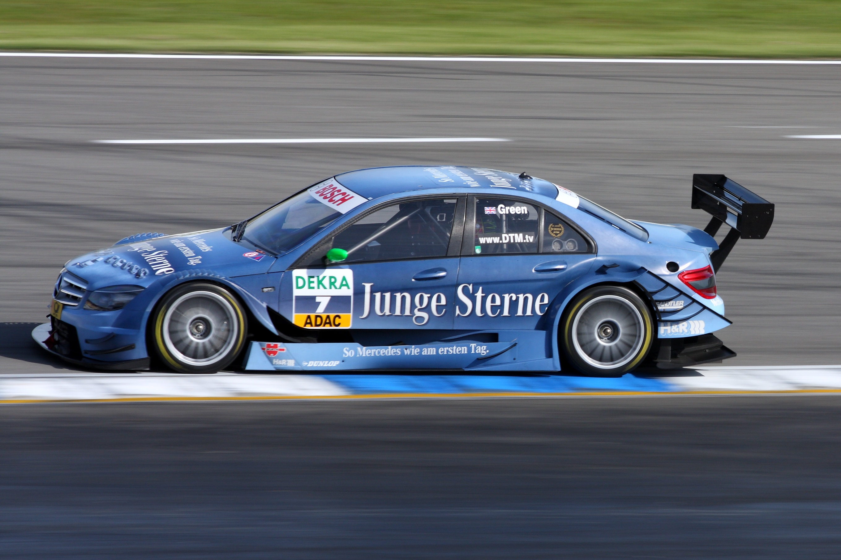 DTM car Mercedes-Benz Season 2009 (C-Class, W204), Jamie Green (driver))